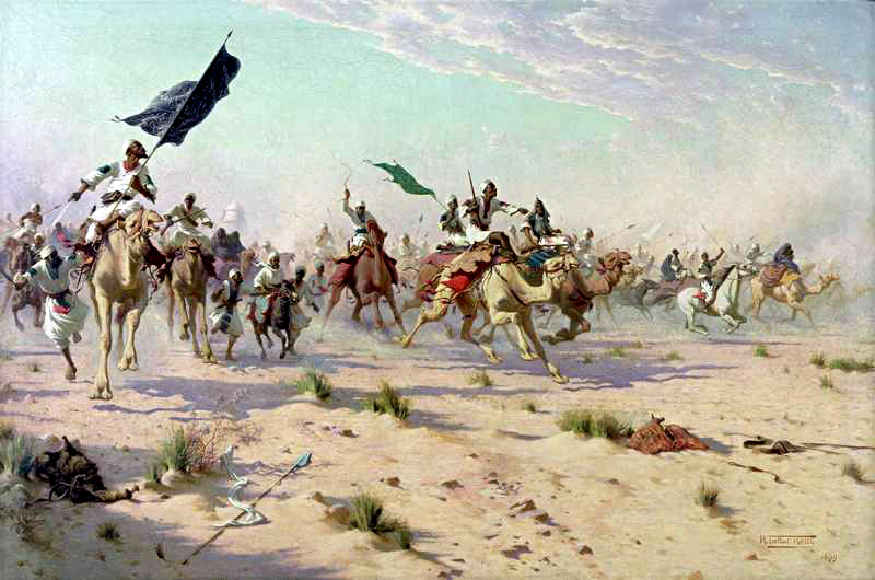 The Flight of the Khalifa after his Defeat at the Battle of Omdurman, 2nd September 1898